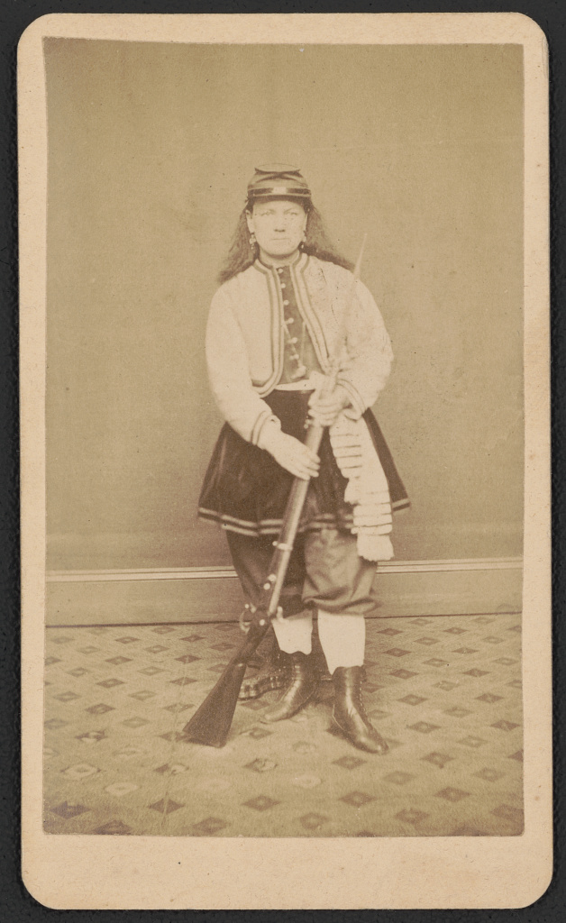 Title: Kady C. Brownell, vivandière associated with 1st Rhode Island Infantry Regiment and 5th Rhode Island Heavy Artillery Regiment with bayoneted rifle Abstract/medium: 1 photograph : albumen print on card mount ; mount 11 x 6 cm (carte de visite format)